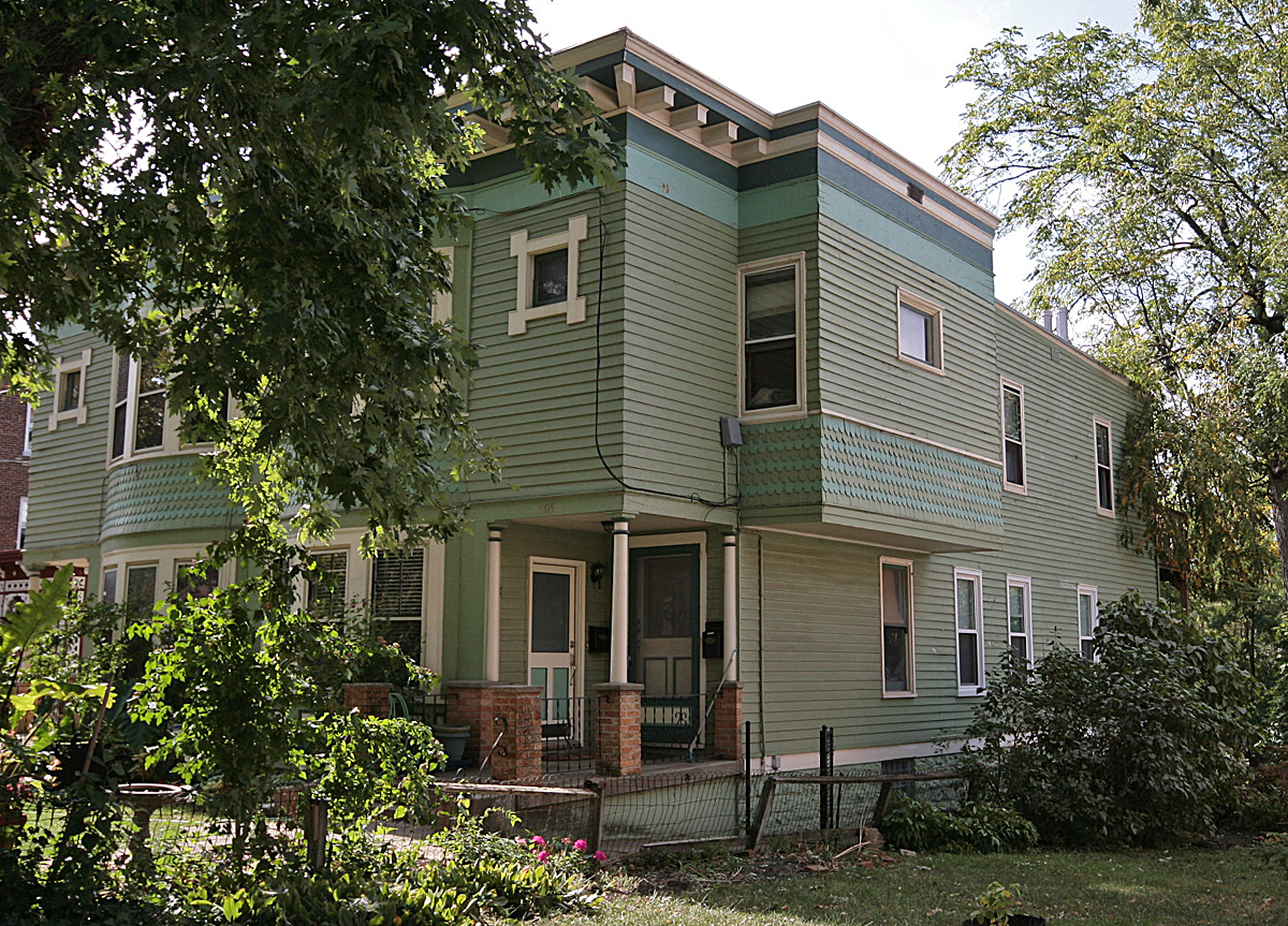 Landt Building on Eastern Avenue in Cincinnati, Oh. Photo by Greg Hume